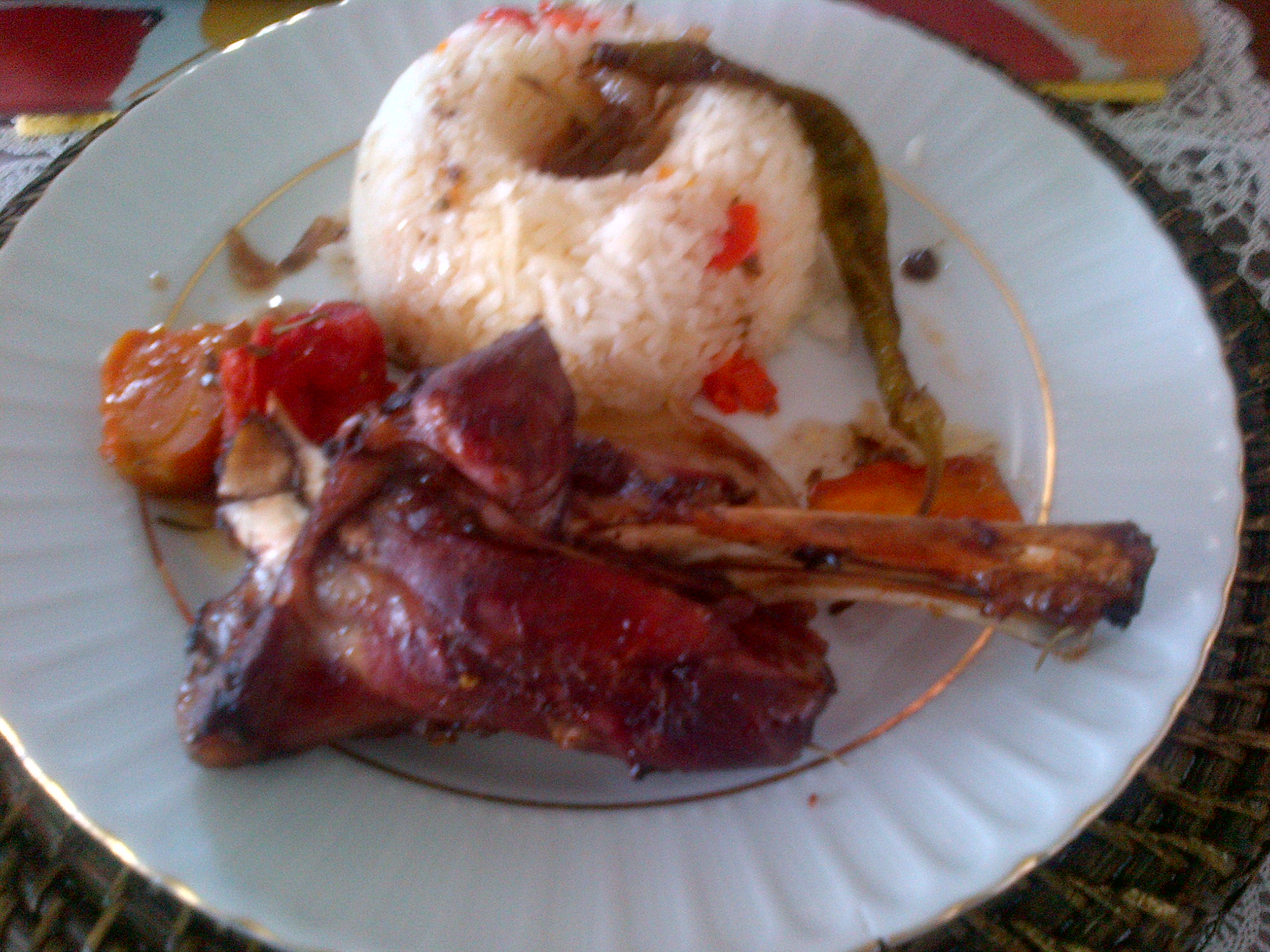 Kuzu "incik" fırın (Lambshank in oven), from the cuisine of Turkey, with "pilav".